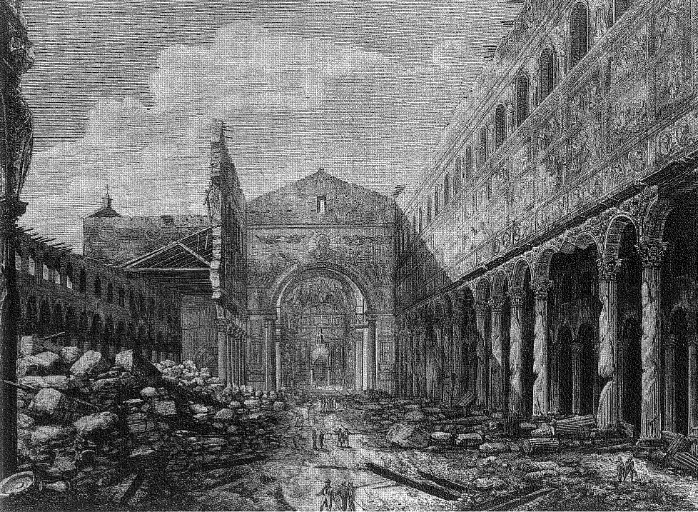 Luigi Rossini's Engraving of the Basilica di San Paolo fuori le mura after the fire destroyed it